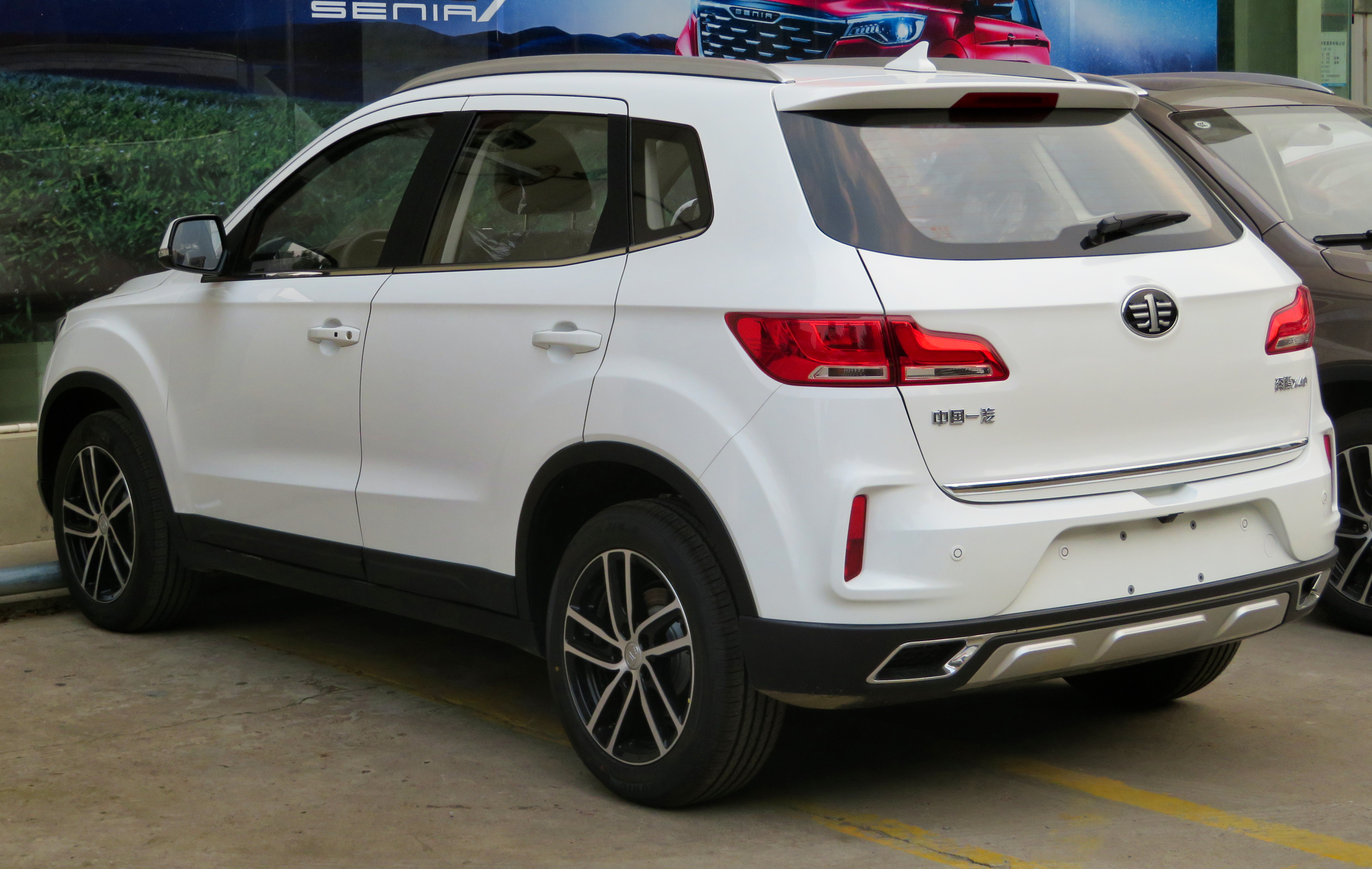 A 2018 FAW-Besturn X40 photographed in Luolong District, Luoyang, Henan province, China